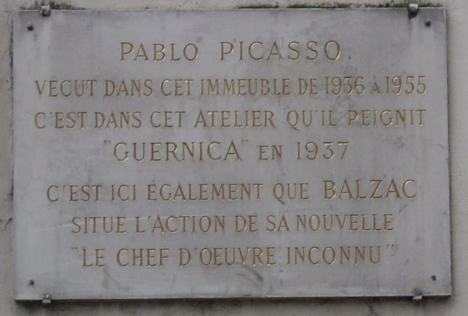 Legend plate at No. 7, rue des Grands-Augustins, 6th arrondissement in Paris, where Pablo Picasso (1881-1973) lived from 1936 to 1955 and where he painted Guernica in 1937. This may be also the place where Balzac located the action of his novel Le Chef-d’œuvre inconnu (English The Unknown Masterpiece). Balzac's painters Porbus studio was supposedly located here.